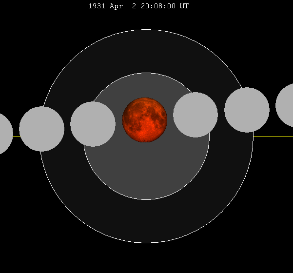 April 1931 lunar eclipse chart of moon's lunar eclipse path through the earth's shadow. thumb